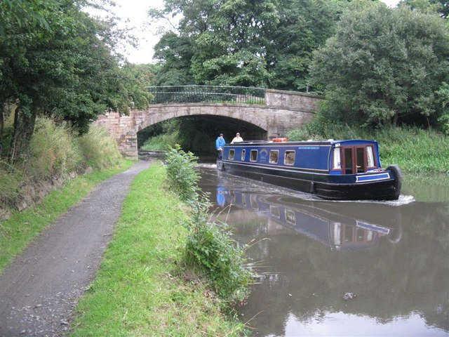 The Union Canal and Hermiston Bridge The boat is 'Debbie II'.